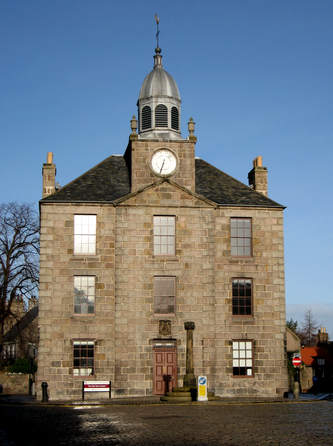 The Town House, Old Aberdeen The old town house at the top of the High Street in Old Aberdeen. Now a visitor's centre for The University of Aberdeen.